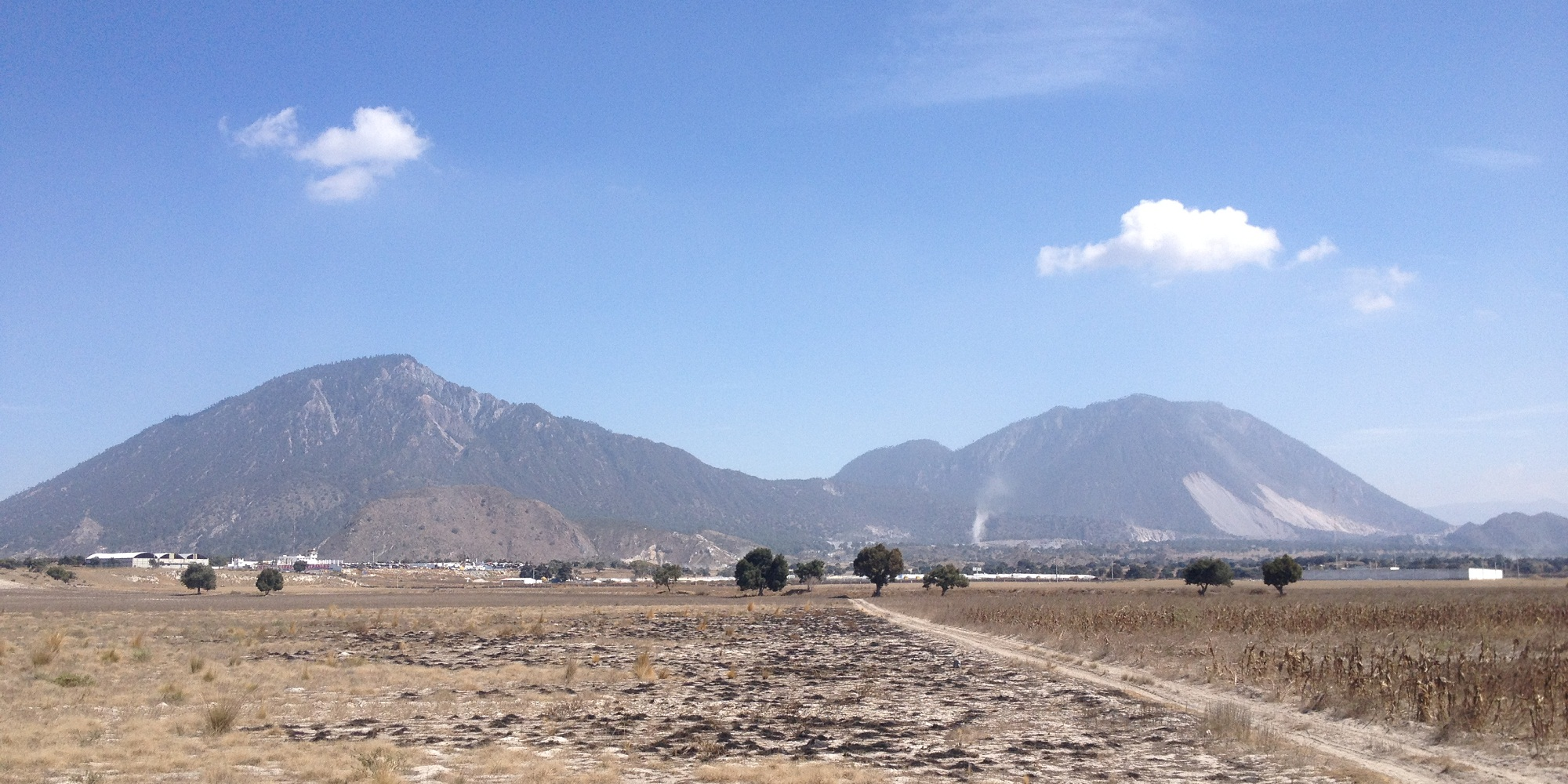 Las Derrumbadas, a rhyolitic twin dome volcano in the Mexican state of Puebla, seen from highway 129 near Zacatepec.